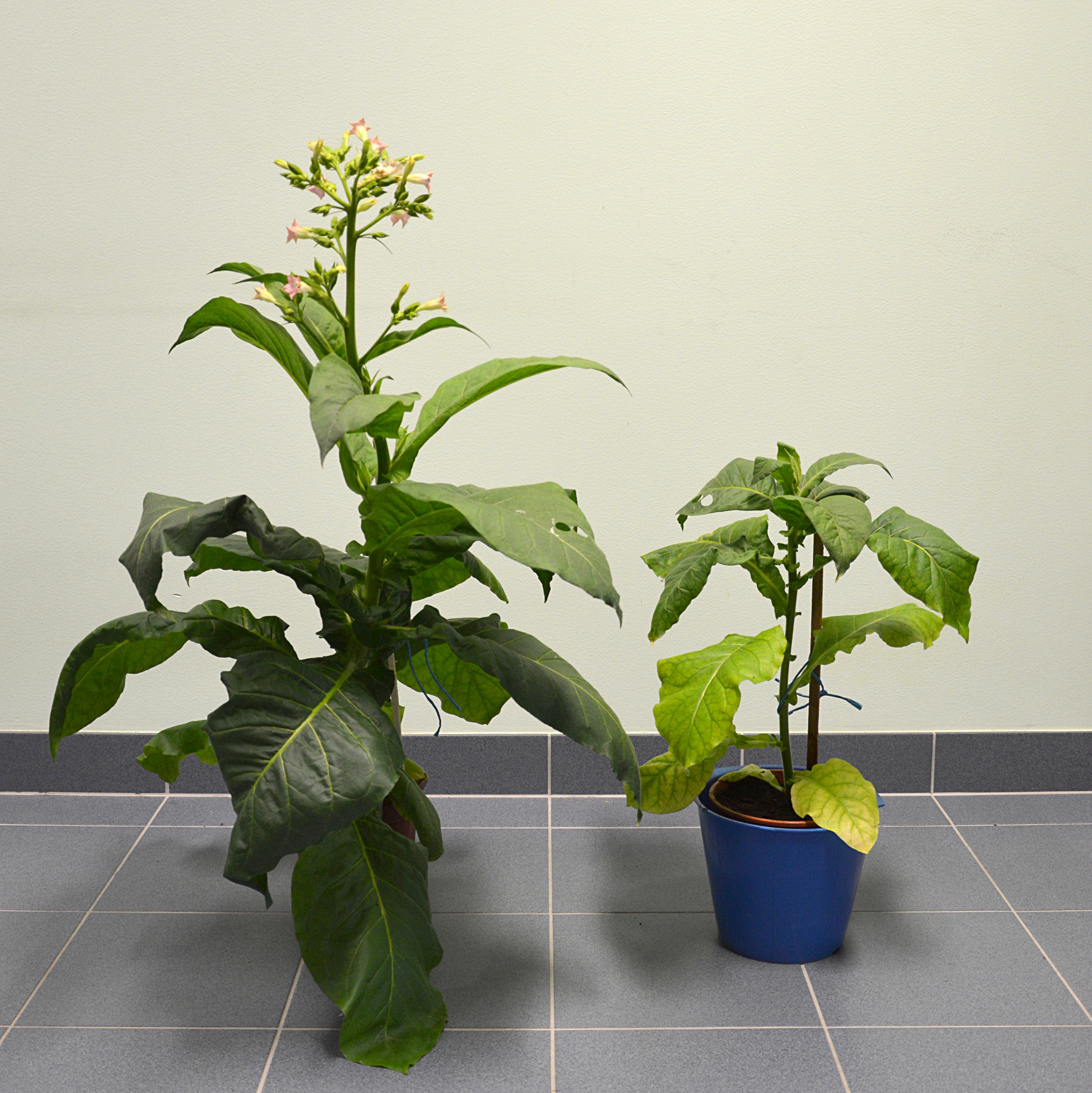 Tobacco (Nicotiana tabacum) cytochrome b6f mutant (right) next to normal plant. Both of them have the exact same age and they have grown in the same conditions. Plants are used in photosynthesis research. Laboratory of Agu Laisk, Institute of Technology, University of Tartu.